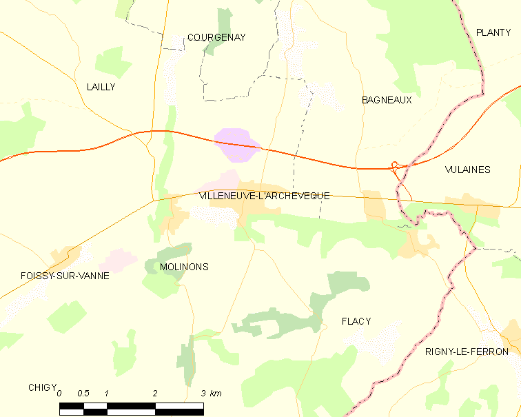 Map of French municipality Villeneuve-l'Archevêque